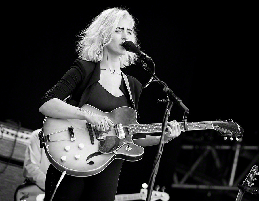 Thea Hjelmeland performs at Piknik i Parken in Oslo on 25. June 2016. Lineup:Thea Hjelmeland (guitar / vocal)